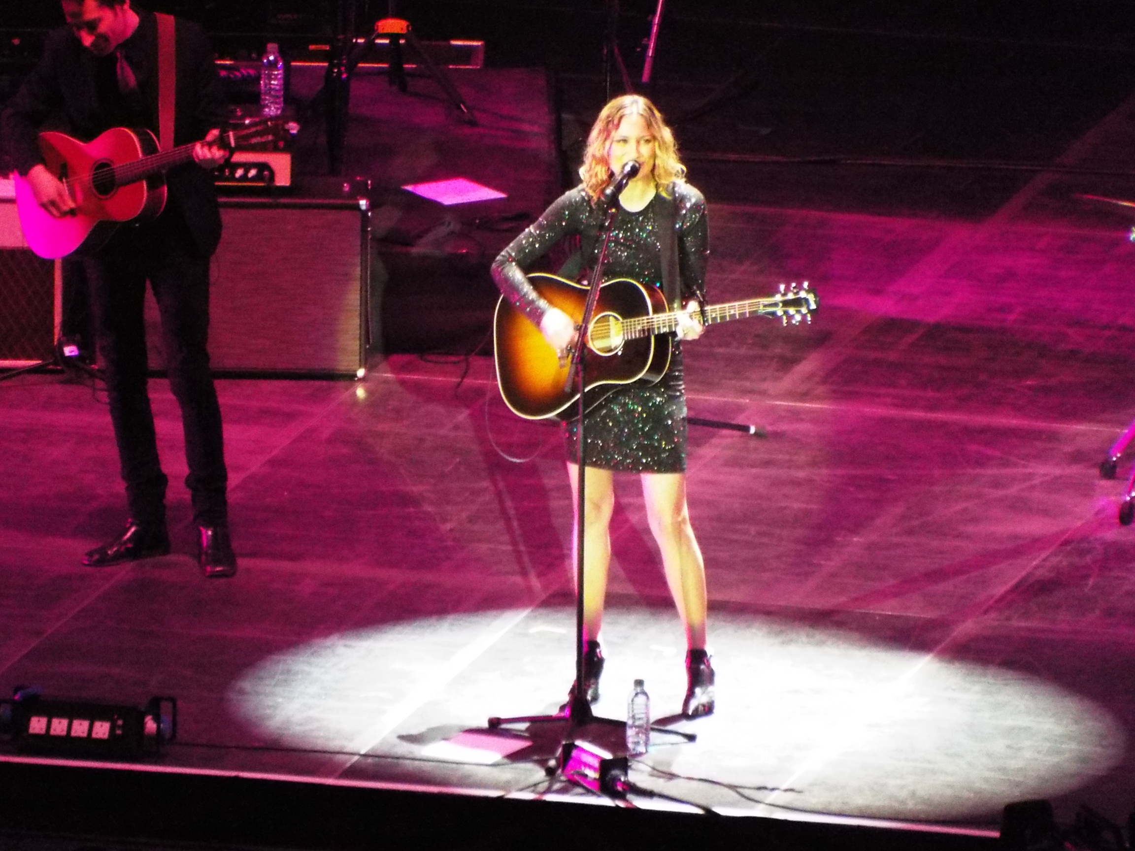 On the main stage at Country to country. Country music festival at the O2 in London, March 2017